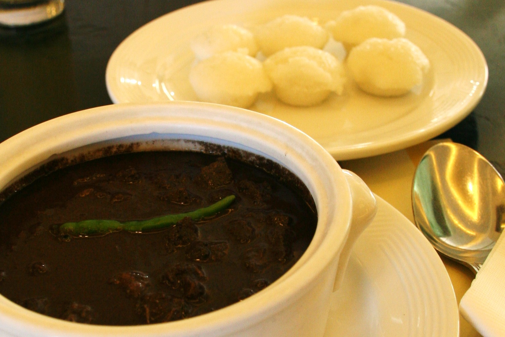 Pork Dinuguan with Puto at Cafe Laguna.